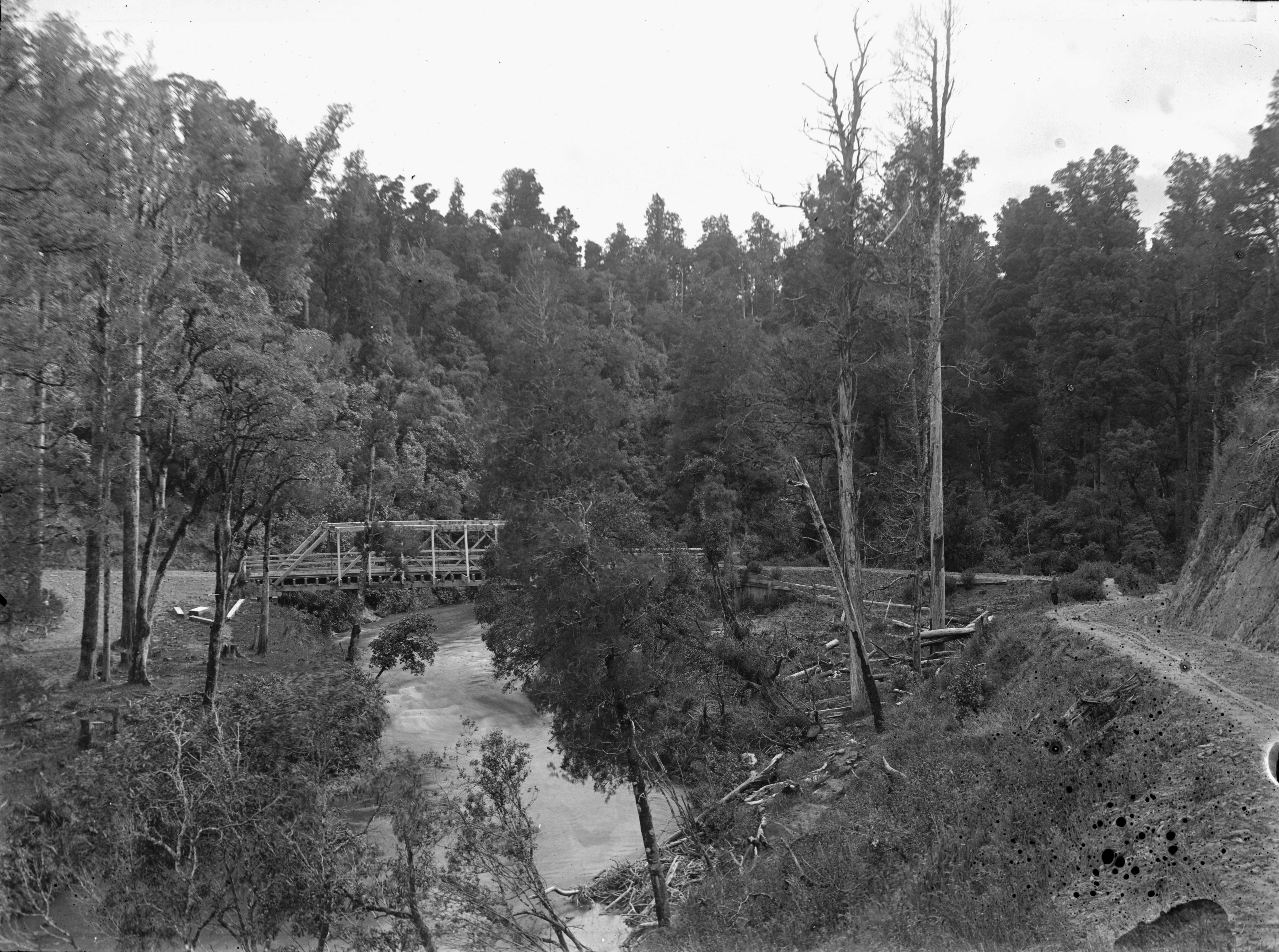 View of a bridge over the Hautapu River, with unsealed road visible on either side of the river. Photographed in 1906 by A P Godber. Description in album at Pa1-o-197 (Vol 105, p 5): "Hautapu River bridge".